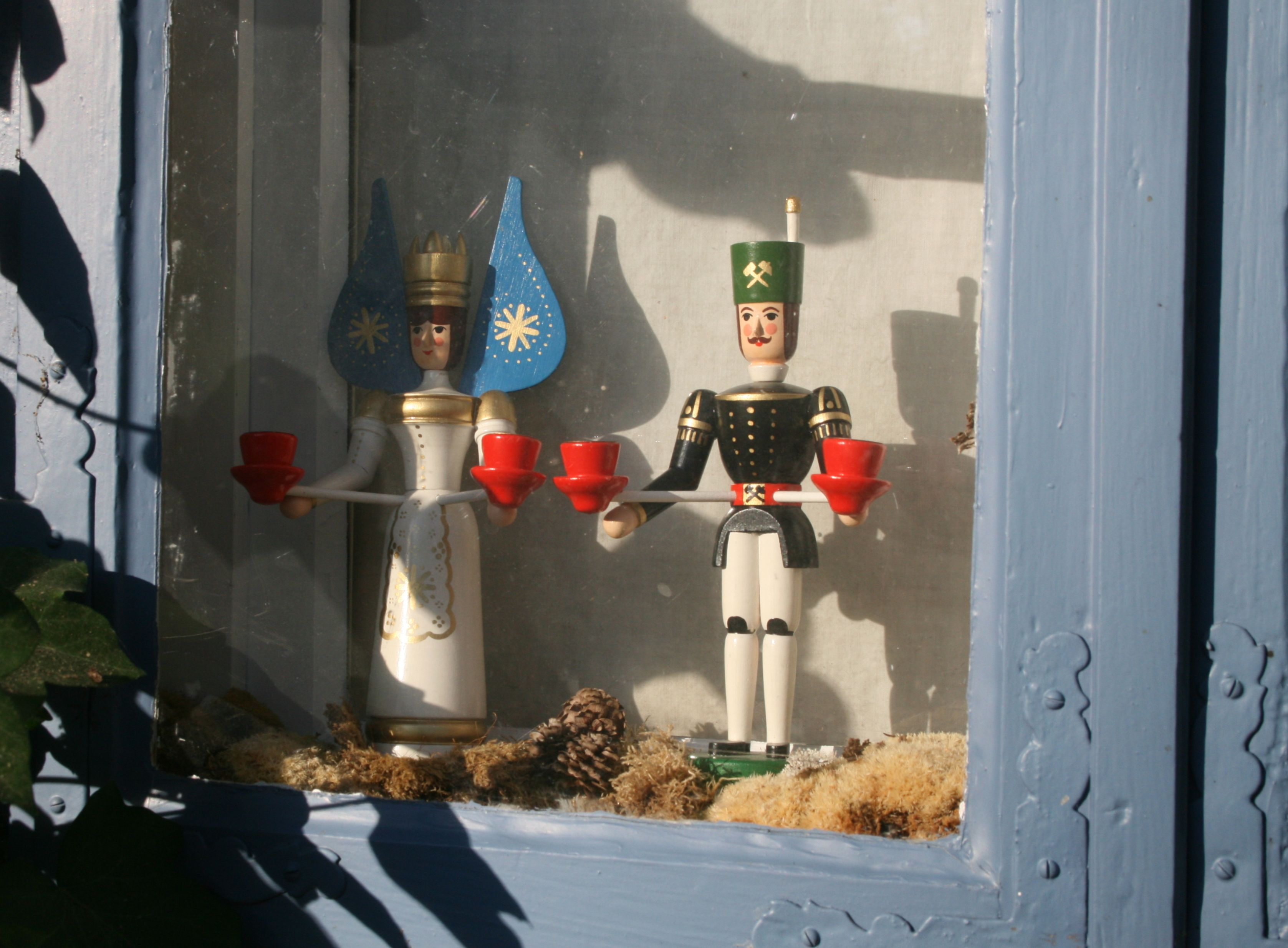 Ore Mountains - Ore Mountain folk art in the windows at Christmas time